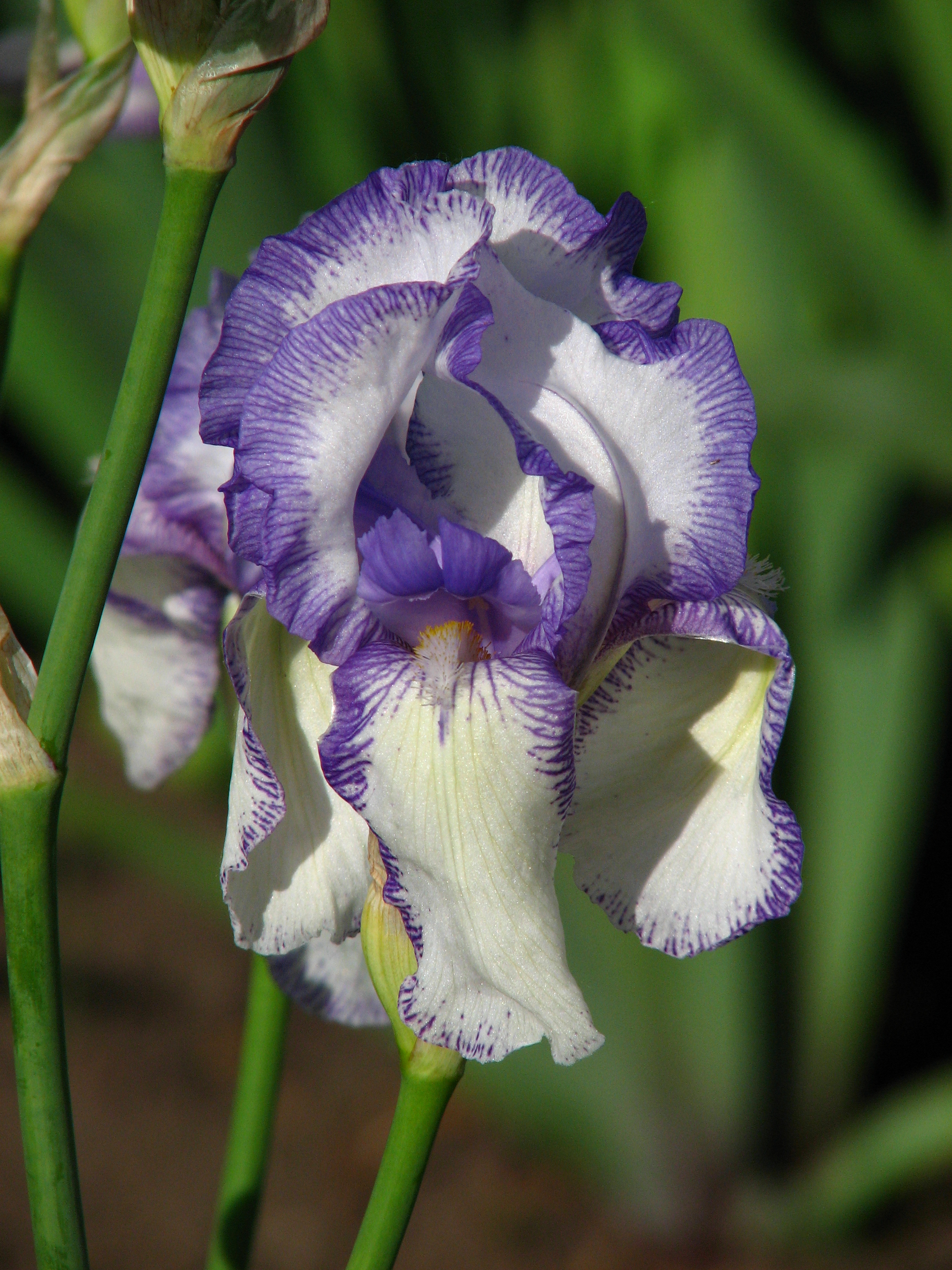 Iris 'Madame Chereau' (1843, Lémon, France). From the collection of the Botanical Garden of Moscow State University (main area on the Sparrow Hills).